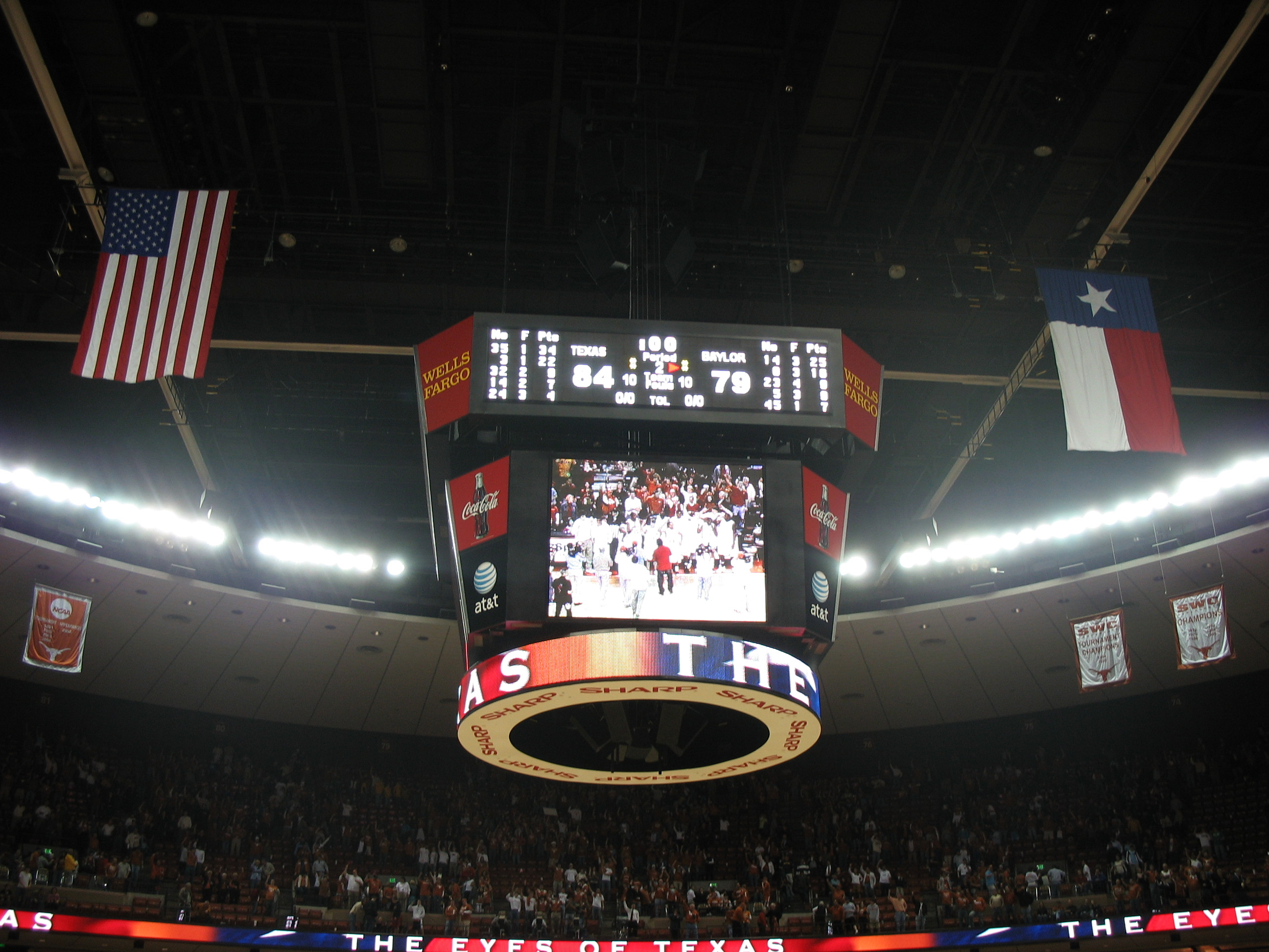 Eyes of Texas after a Texas Basketball game at the Frank Erwin Center against the Baylor Bears